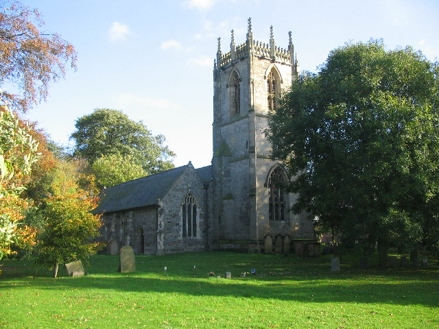 St Leonard's Church, Beeford in the East Riding of Yorkshire, England.